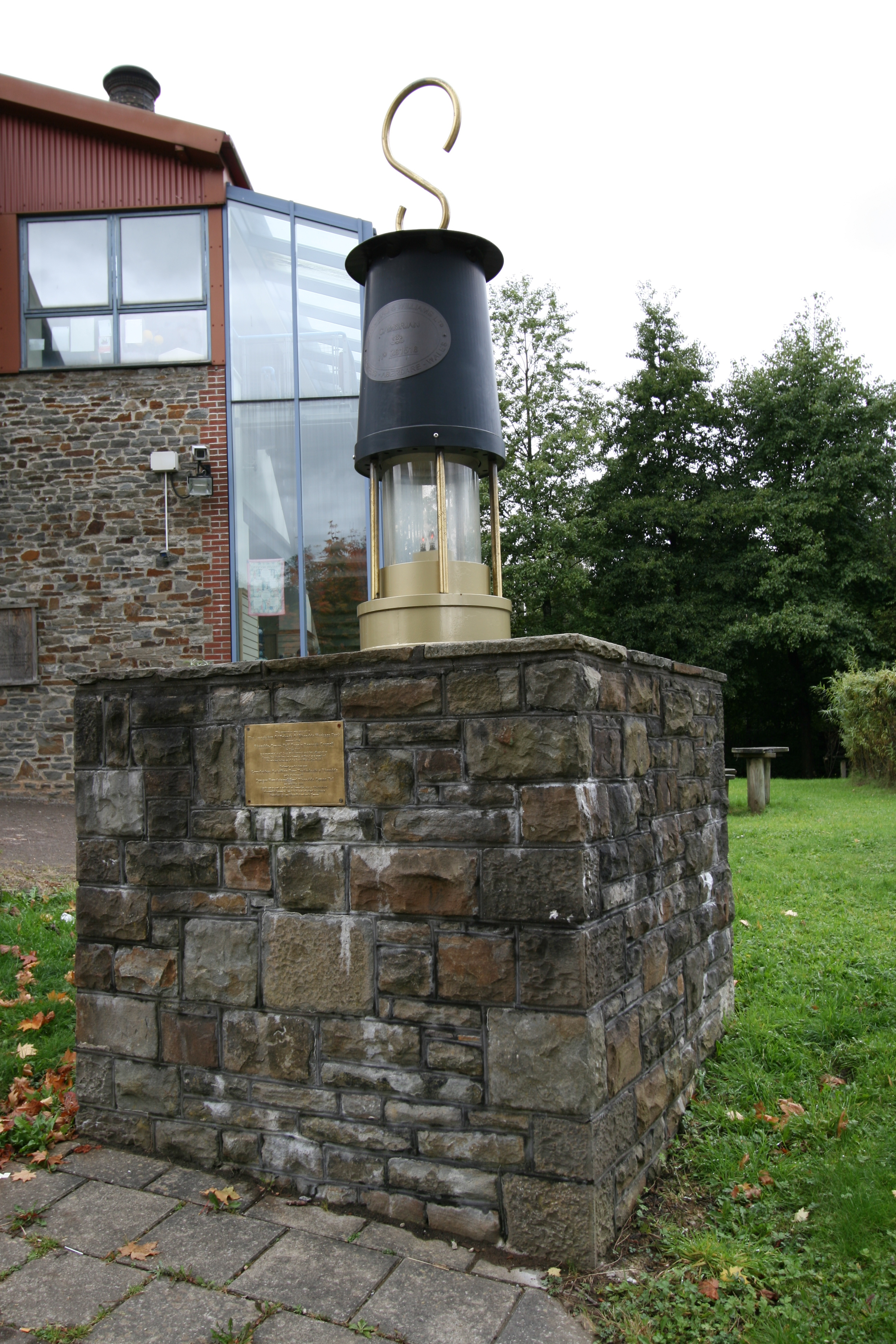 Miner's lamp memorial outside Rhondda Heritage Park entrance